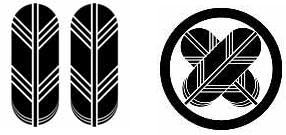 The Kikuchi clan mon.